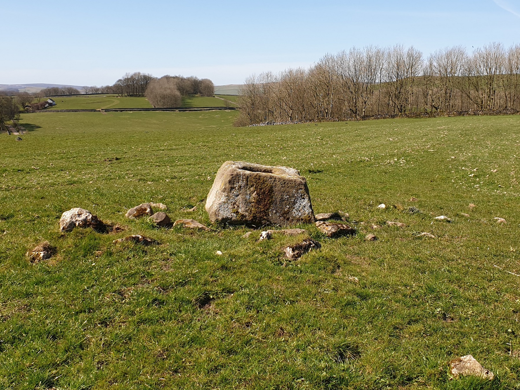 Wind Low barrow and standing cross base